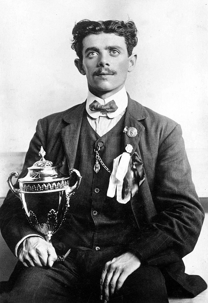 Public domain image, from the